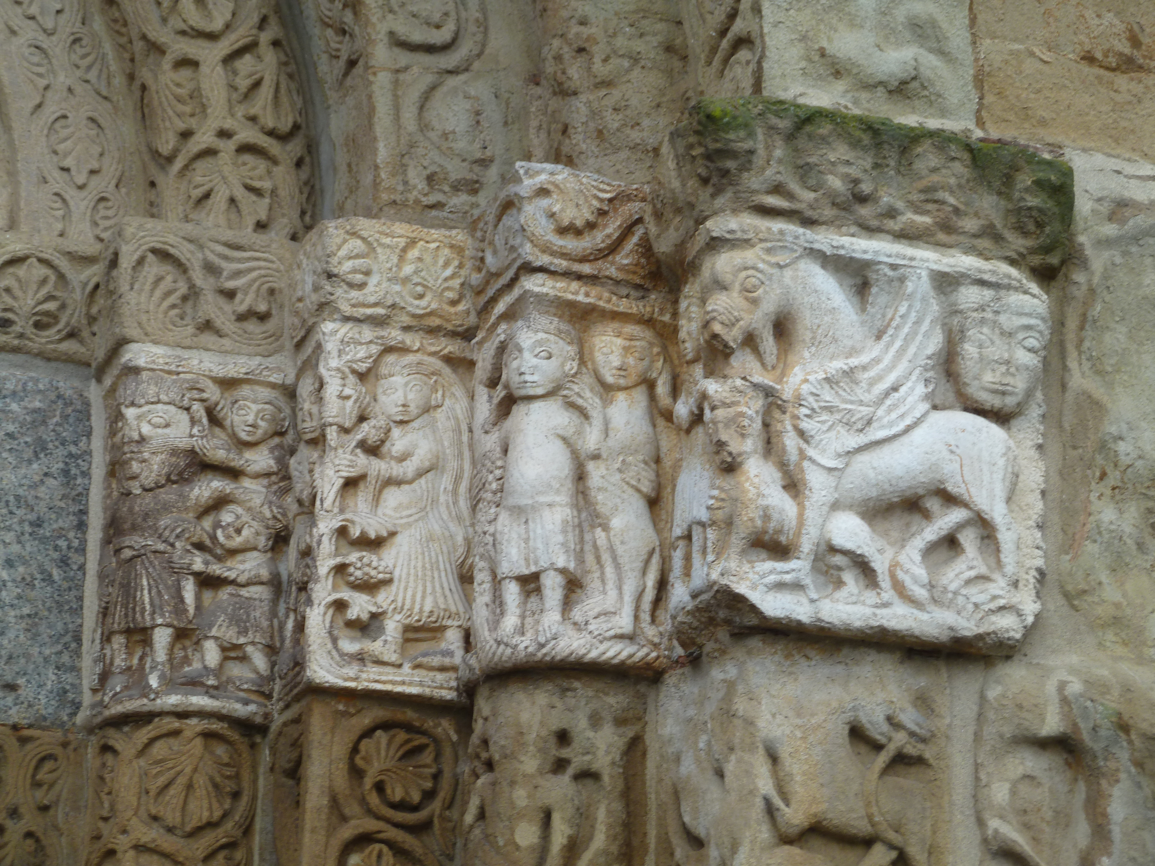 Church of San Michele (Pavia, Lombardy). West facade. Right portal. Right capitals.